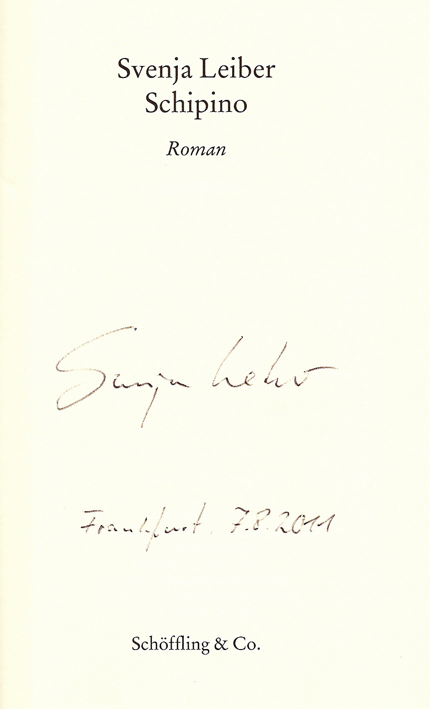 Autograph from Svenja Leiber, German writer, 2011 in Frankfurt am Main, Germany.